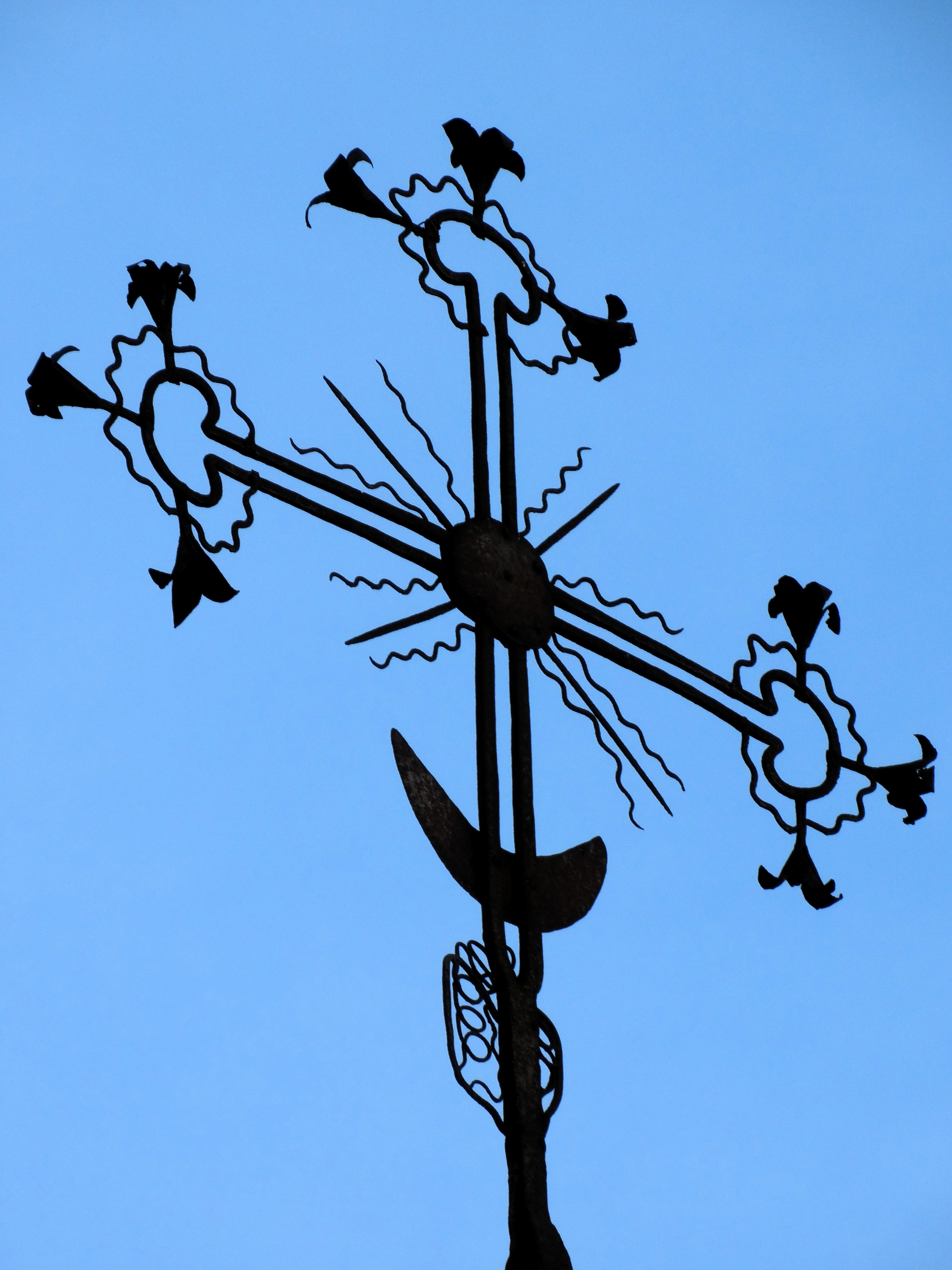 Chapel cross in Diliai, Biržai district, Lithuania